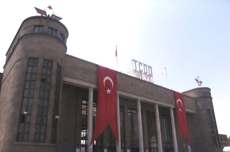 Central Train Station (1937) in Ankara, Turkey.